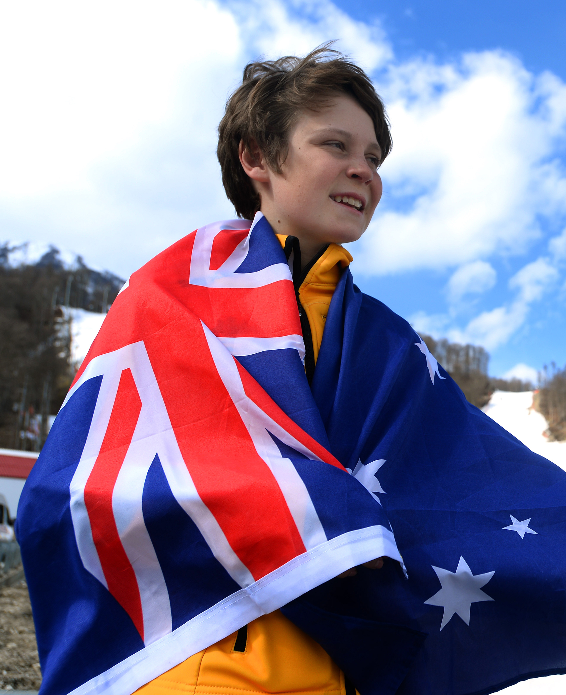 14yr old Australian snowboarder Ben Tudhope was given the honour of carrying the flag for Australia at the Closing Ceremony of the Sochi 2014 Paralympic Winter Games. Image taken on Day 9 at the Rosa Khutor Alpine Center.